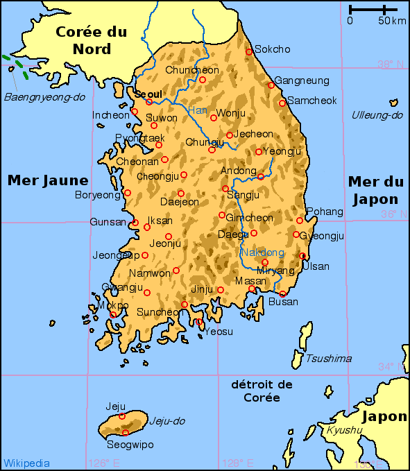 Map of South Korea in French